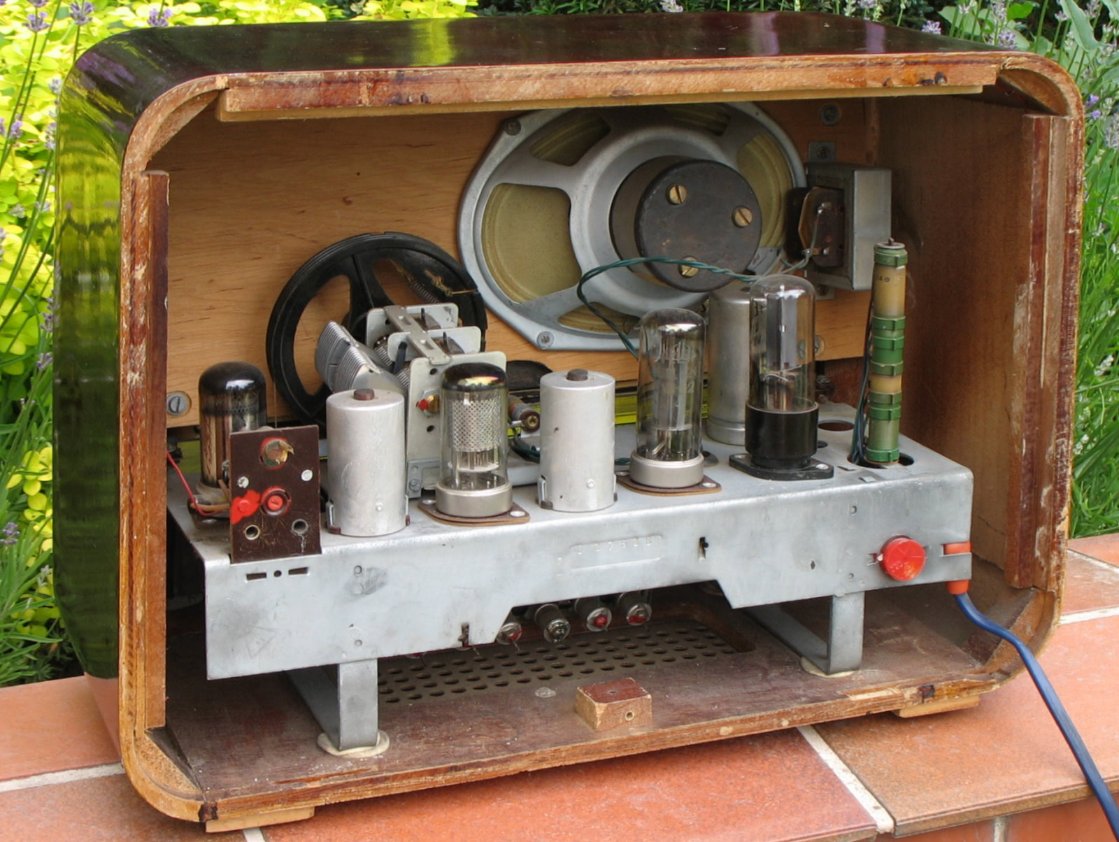 Radio "Sonatina", manufacturer: "DIORA" (Poland), 1957-1963